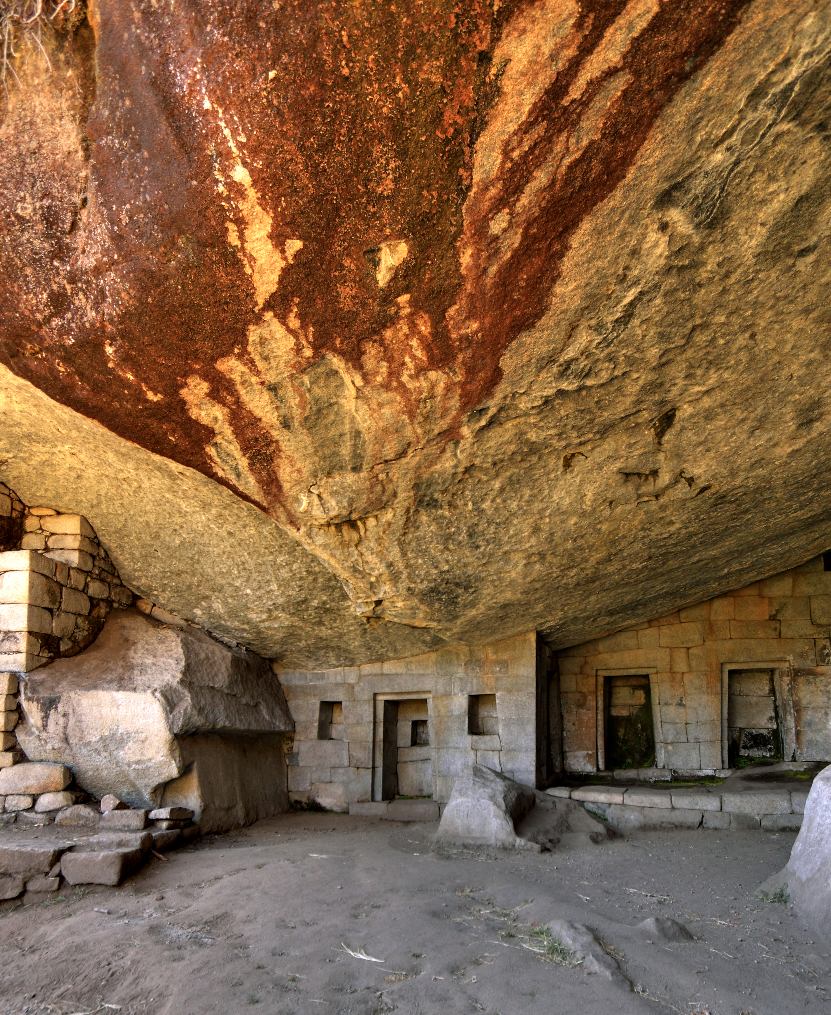 Please, have this description accessible to all by translating it in different languages.